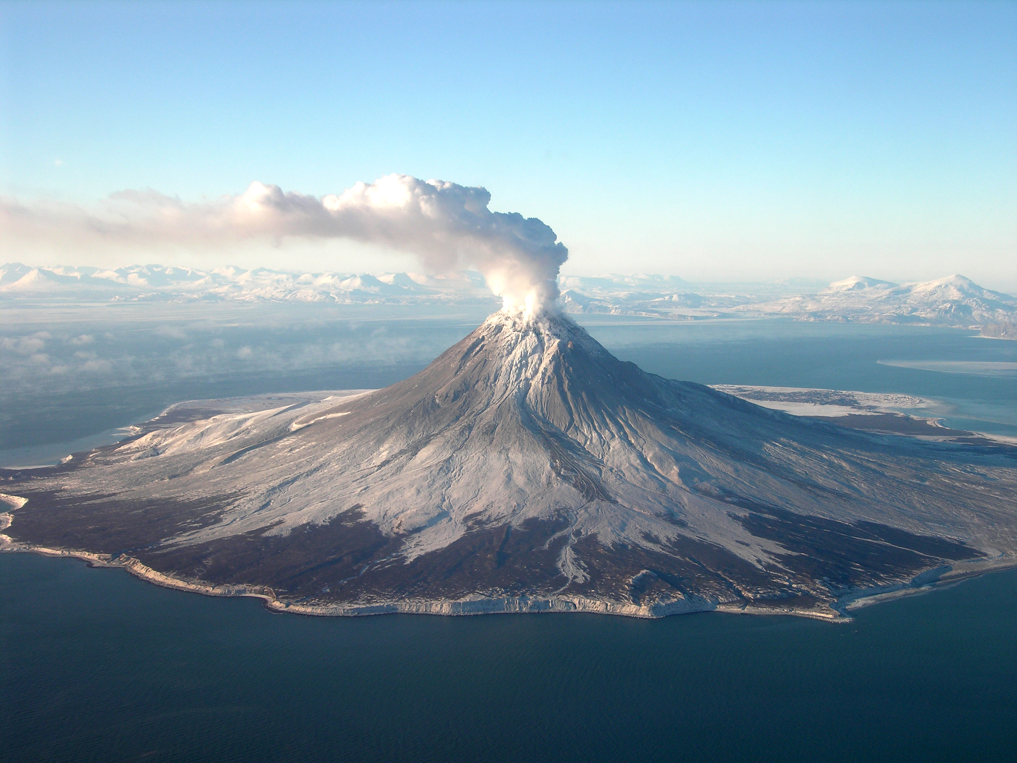 A gas plume arising from Augustine Volcano during its eruptive phase 2005-06. This photo was taken during a FLIR/maintenance flight on January 24, 2006.